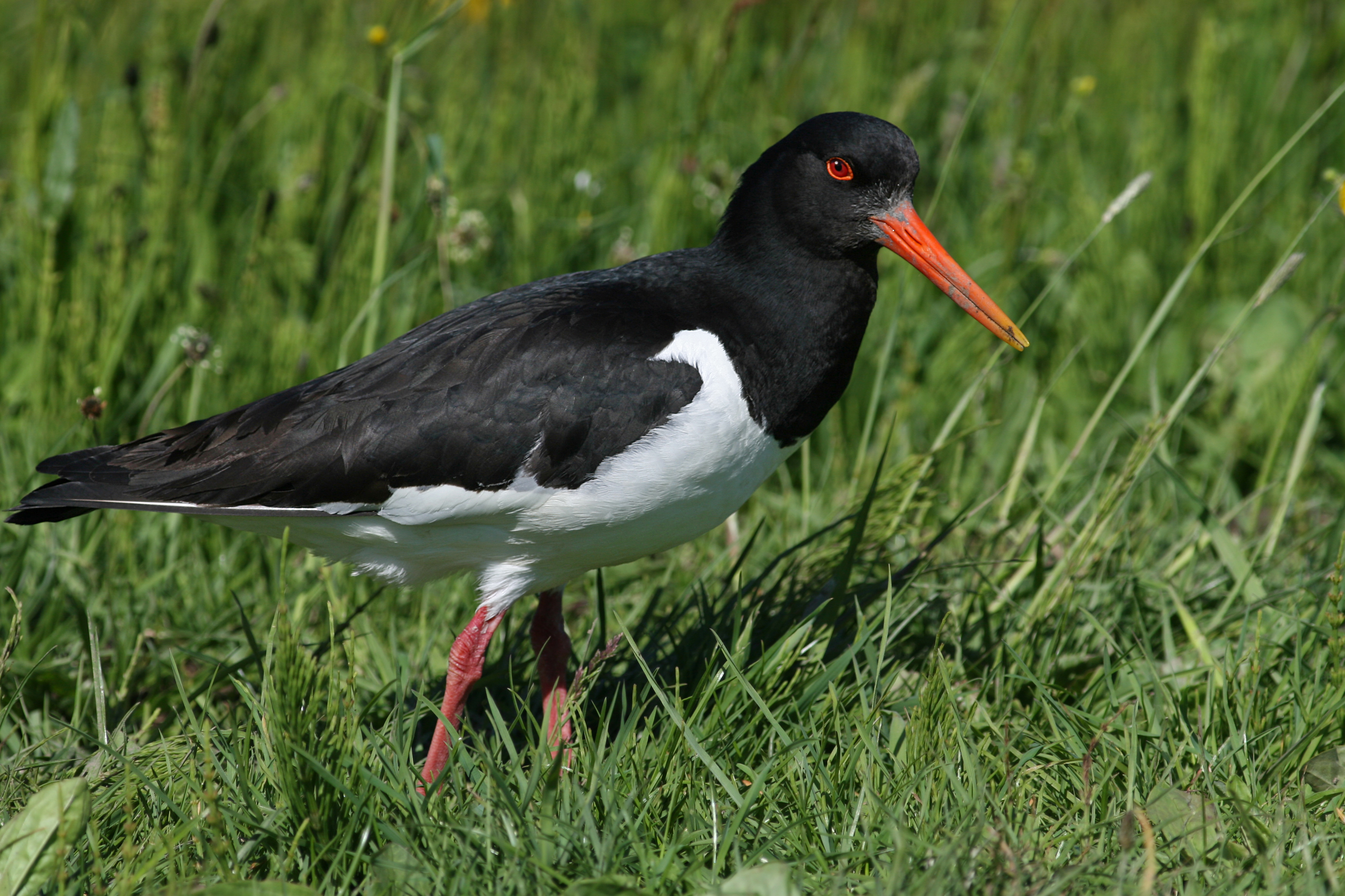 Eurasian oystercatcher (Haematopus ostralegus), Texel, Netherland